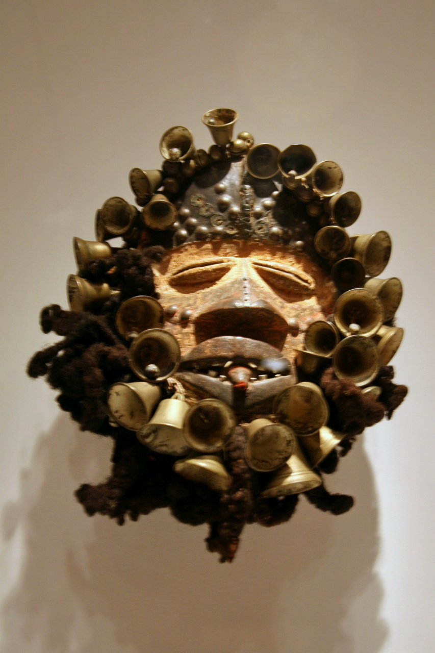 Mask, Wee peoples, Côte d'Ivoire, Late 19th to mid-20th century, Wood, pigment, brass tacks, bells, metal, cloth, hair, teeth The relatively calm-albeit, exuberantly decorated-life-size face, the slightly parted lips and the slit eyes fit the local definition of a female mask. The mask's performance style, whether a comic performer asking for money and gifts, a singer or praise attendant, is nonthreatening and its character is defined by its headdress, body covering, dance pattern and accompanying percussion instruments and attendants. The lines of tacks on the cheeks and forehead are indicative of old styles of scarification or the face paint still worn by women for ceremonial occasions. Most examples have a stained black surface that differs from the natural aged wood of this piece. (National Museum of African Art)